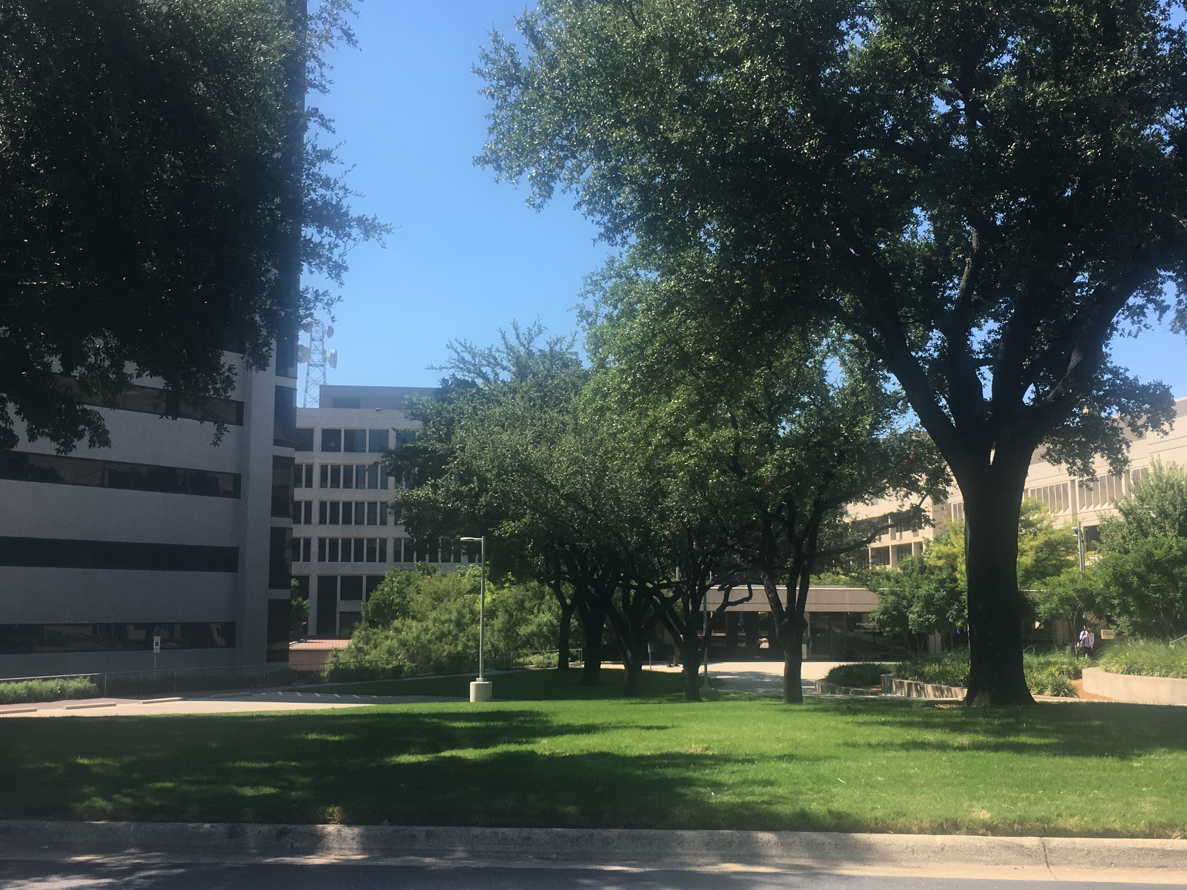 Donald Seldin Plaza, UTSW South campus